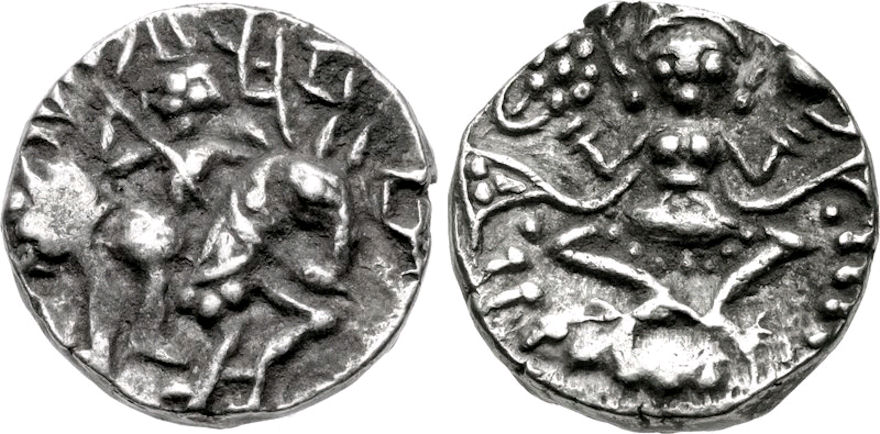 Harshadeva of Kashmir 1089-1101 CE. Man, wearing angular headdress and holding spear, on horseback right; “Śrī Harṣadeva” in Śāradā script above / Goddess seated facing on lotus, holding lotus and vase.